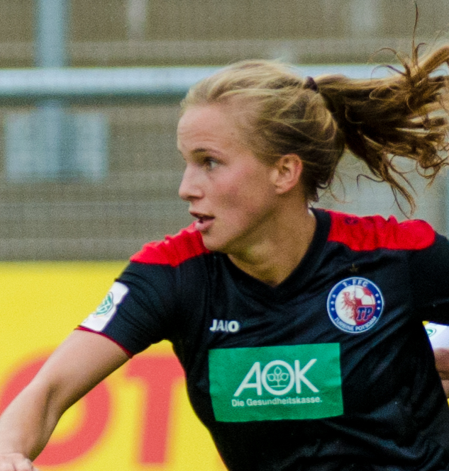 Match of the German Women's Football Bundesliga between 1.FFC Frankfurt and 1. FFC Turbine Potsdam, 2015-09-13